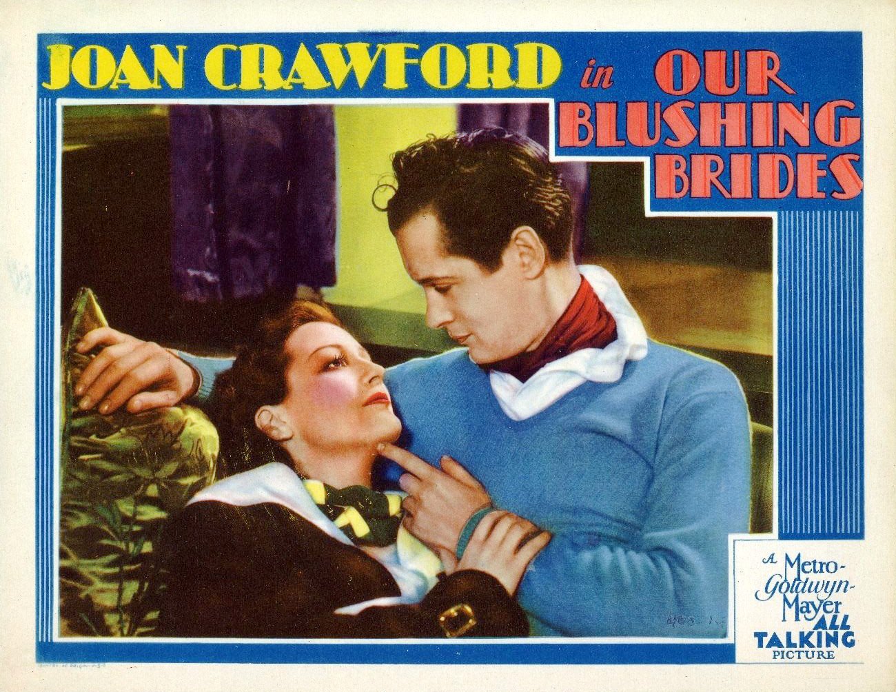 Lobby card for the 1930 film Our Blushing Brides.